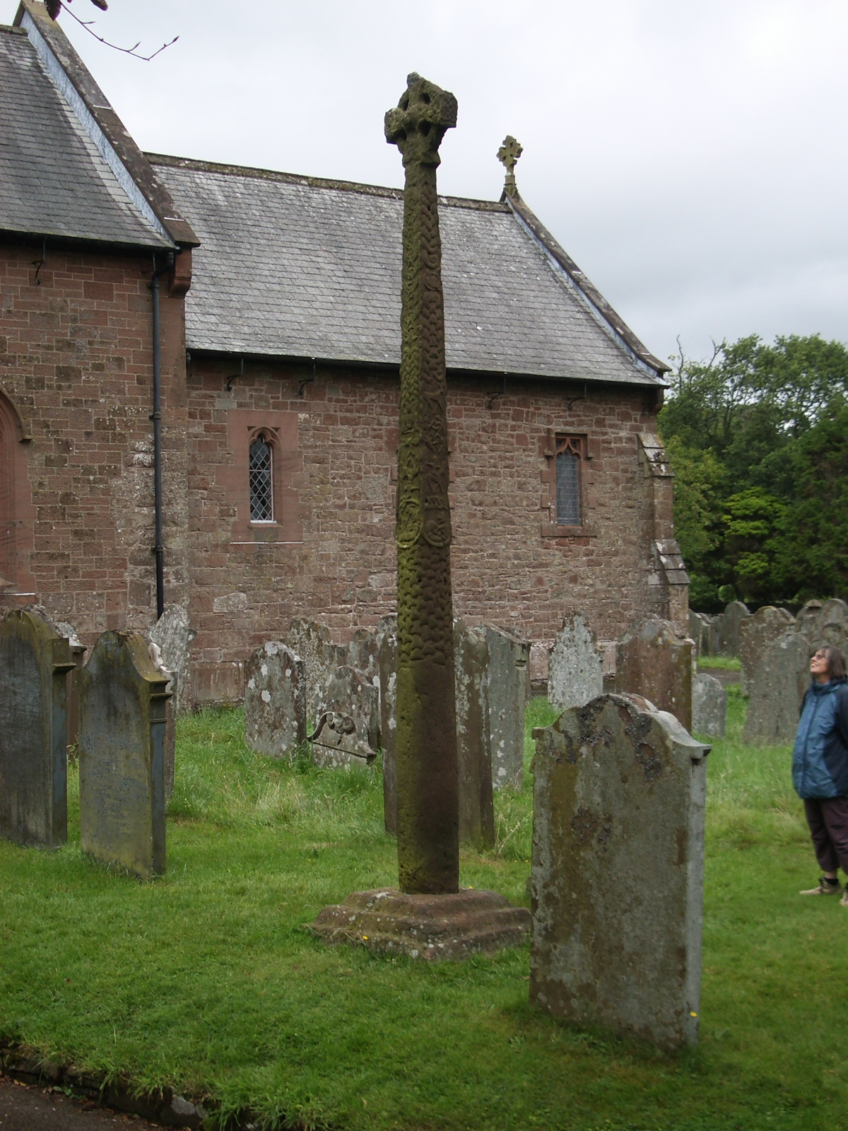 Gosforth Cross outside St. Mary's church in Gosforth, Cumbria.